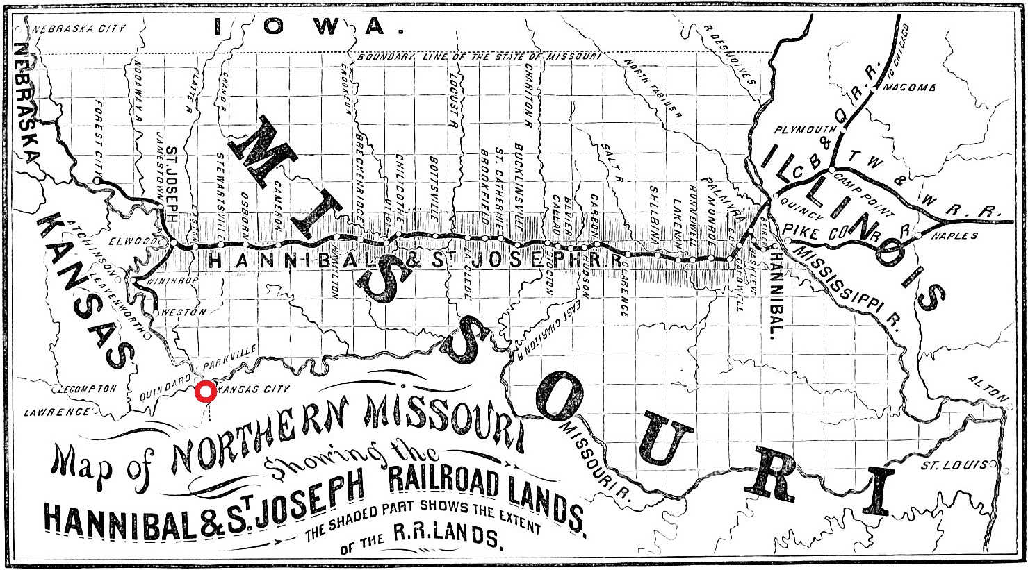 Map of the Hannibal and St. Joseph Railroad 1860